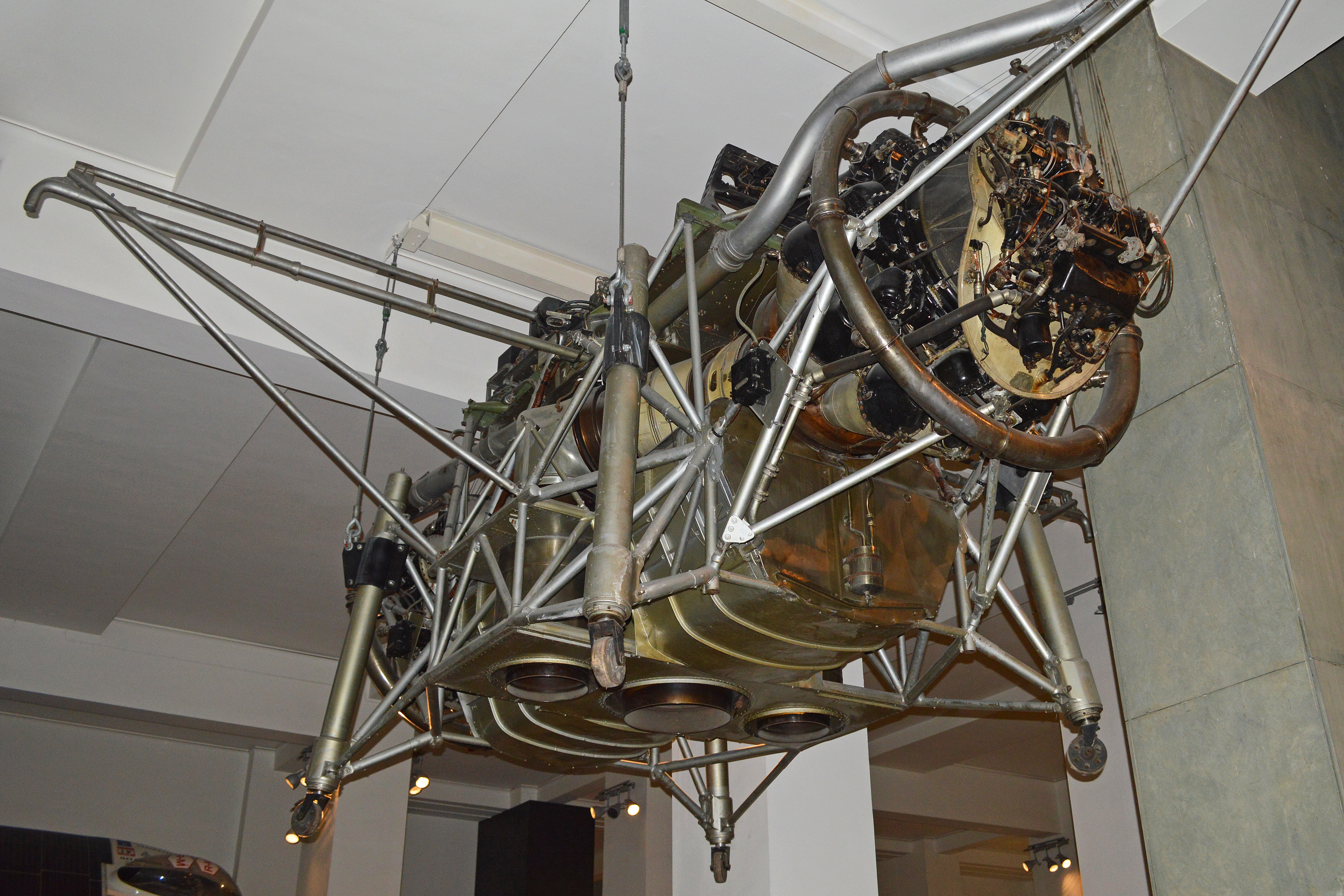 Built 1954. This was a pioneering vertical take-off and landing aircraft developed by Rolls-Royce in the 1950s. It used two Nene turbojet engines mounted back-to-back horizontally within a steel framework, raised upon four legs with castors for wheels. It had no lifting or stabilising surfaces (wings, blades, etc.) and was commonly known as the ‘Flying Bedstead’. It joined the Science Museum in 1961 and is now on display in the ‘Making of the Modern World’ exhibition. Science Museum, South Kensington, London. 16-6-2015